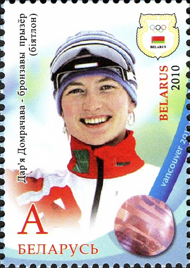 Darya Domracheva - Bronze medalist XXI Olympic Winter Games in Vancouver (biathlon)